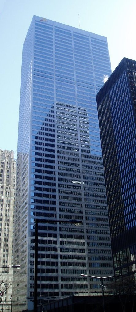 Taken by SimonP in April 2005 Category:I. M. Pei buildings